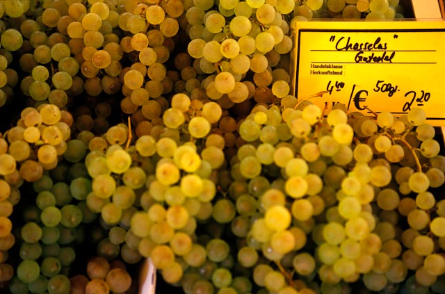 The Swiss/German grape variety Gutedel (Chasselas) at a German market.